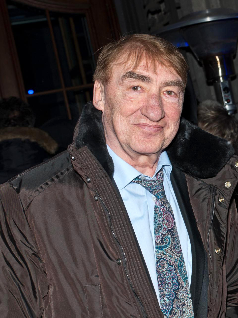 Gottfried John, German actor, Berlinale 2012, ARD Degeto Blue Hour Party